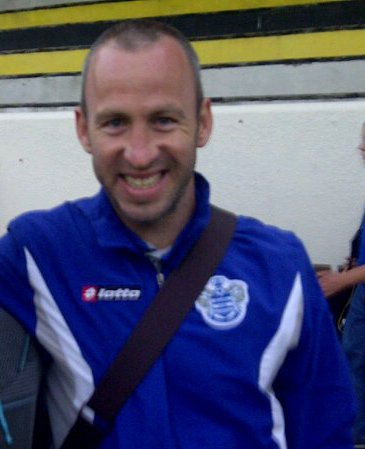 Shaun Derry with a fan during QPR's pre season tour of Cornwall